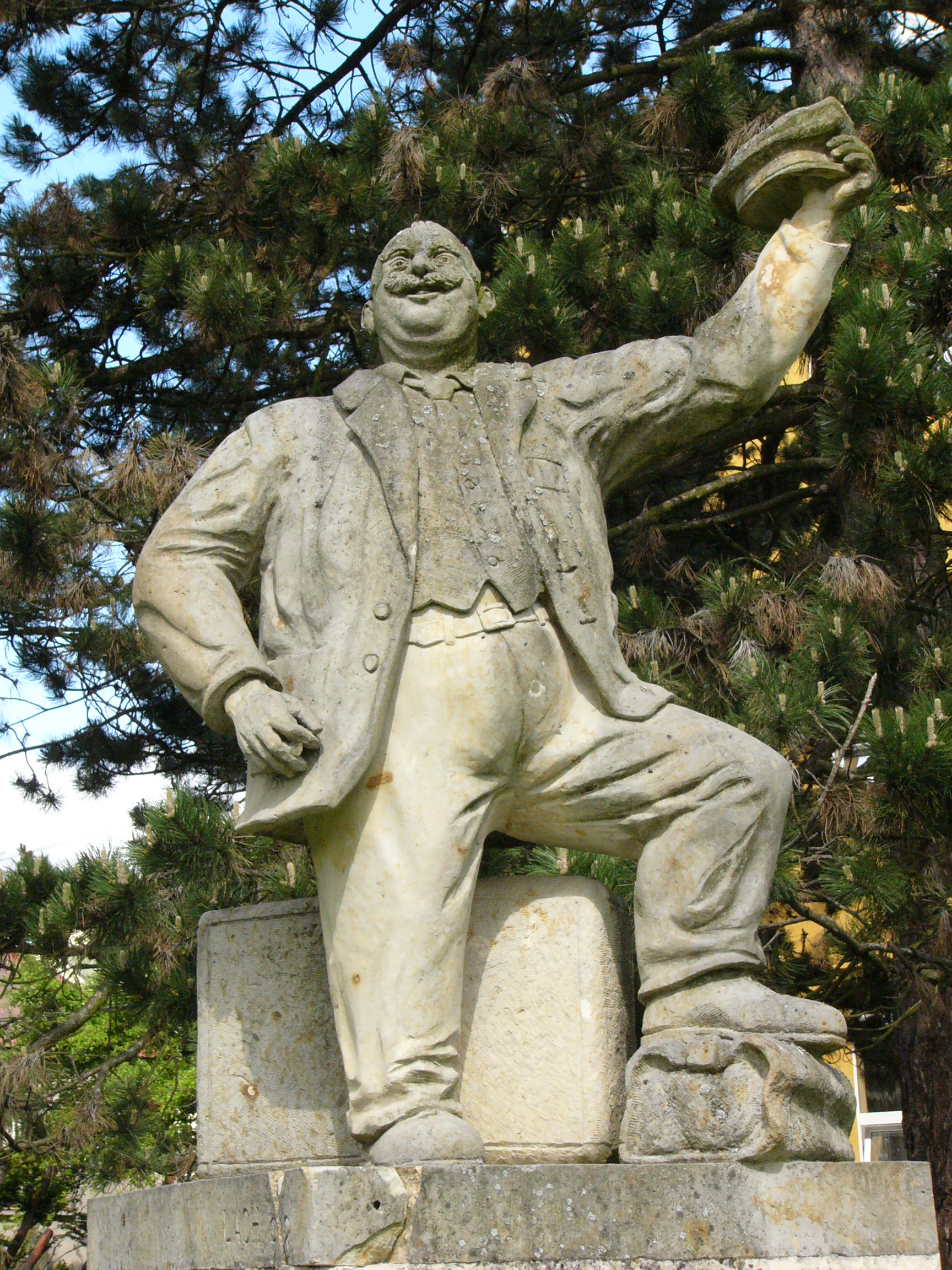 Sandstone statue of Jan Eskymo Welzl at Školská street in Zábřeh (Czech Republic). Statue was made by sculptor Stanislav Lach and was installed in 1998.